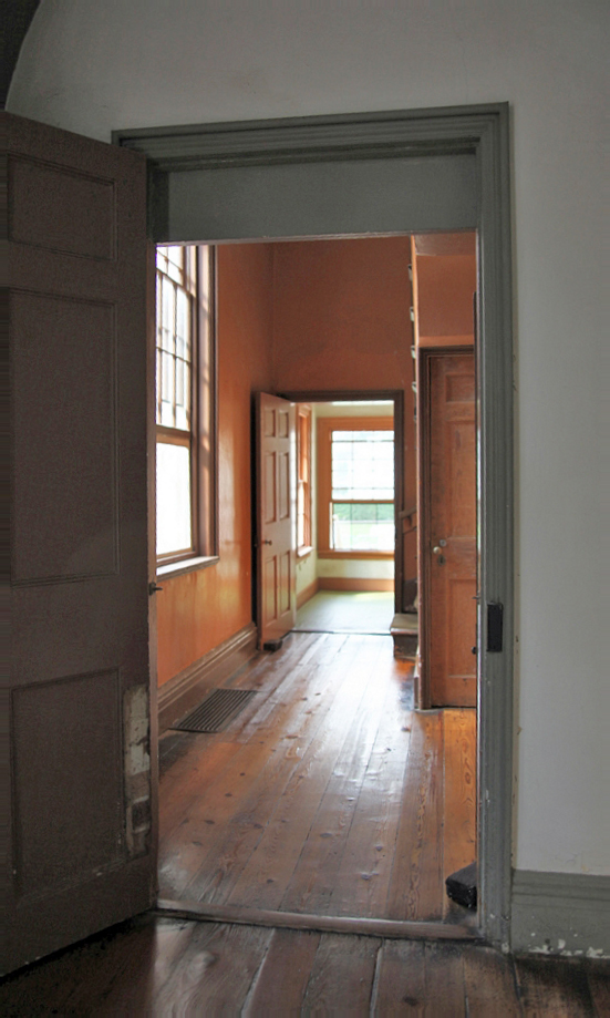 Looking north at the Servants' Hall from the Family Dining Room at Arlington House, the Robert E. Lee Memorial, at Arlington National Cemetery. The Family Dining Room is in the rear half of the center section of the house, north of the Main Hall (the entrance). Once an open-air arcade, this area was later enclosed by the Lees and turns into a Servants' Hall. This area is now off-limits to the public, due to earthquake damage. Beginning in 2008, Arlington House began a major conservation and restoration effort. A modern HVAC system was installed to help prevent moisture and mold damage to the house and its contents, and conservation and restoration of its structural elements also occurred. The effort was due to end in 2012, but the August 2011 earthquake resulted in moderate structural damage to the house. The back wall separated from the mansion, requiring the rear passageway and conservatory to be declared off-limits. The second floor is also closed to visitors. The National Park Service says it has no idea when the house will reopen, as most NPS money is going for repairs to the Washington Monument. Arlington House was built by George Washington Parke Custis, adopted son of George Washington, in 1803. George Hadfield, also partially designed the United States Capitol, designed the mansion. The north and south wings were completed between 1802 and 1804. but the large center section and portico were not finished until 1817. George Washington Parke Custis died in 1857, leaving the Arlington estate and house to his eldest daughter, Mary Custis Lee -- wife of General Robert E. Lee.